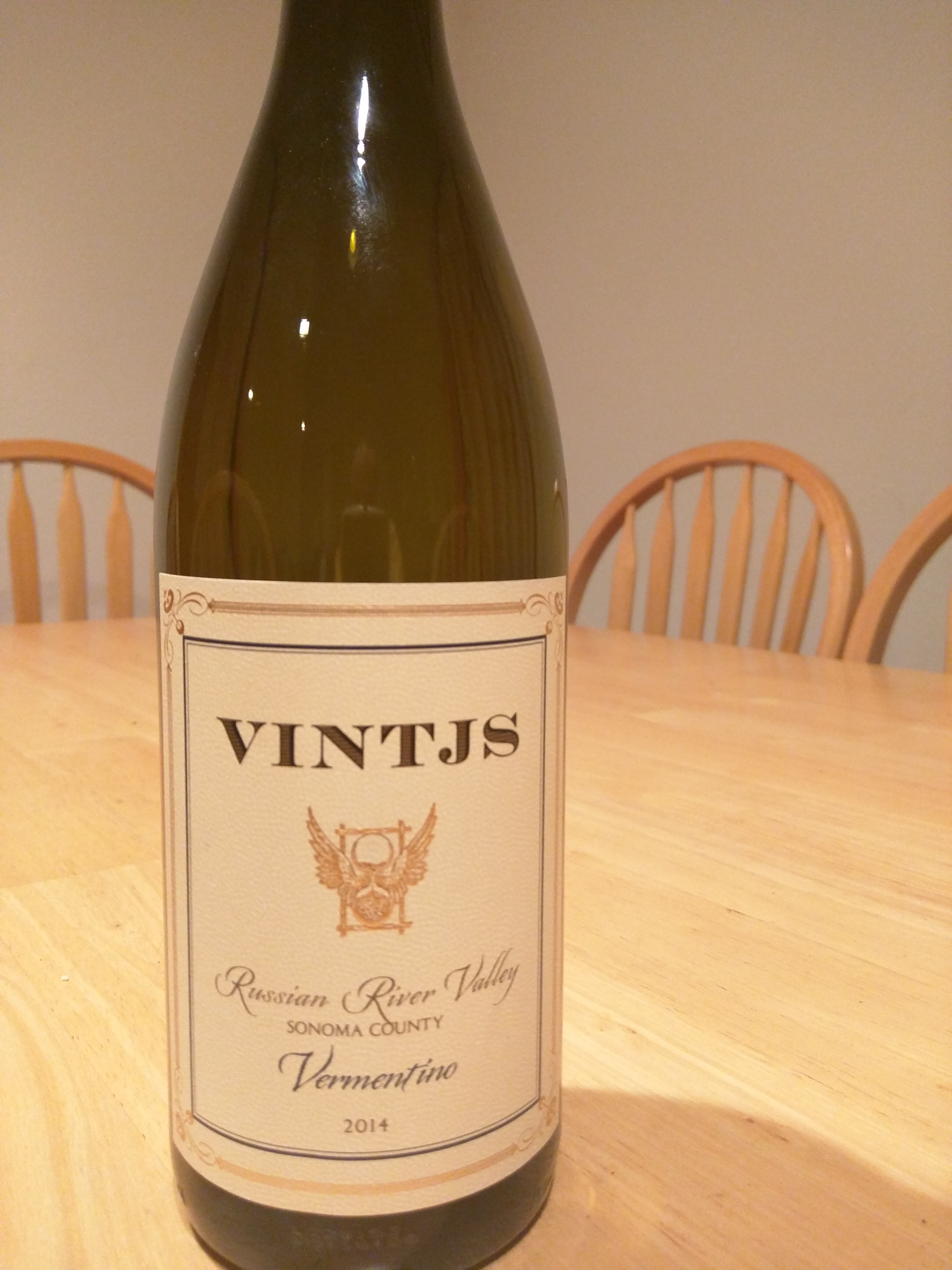 Wine made of vermentino grape from California.